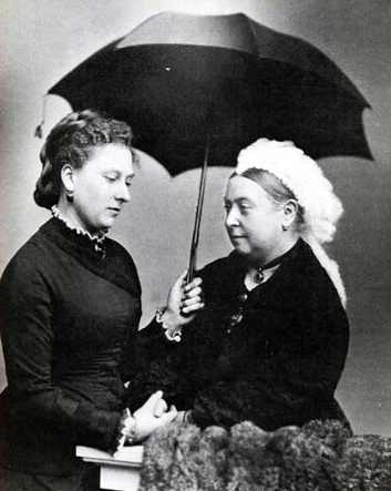 Queen Victoria with her youngest daughter, Princess Beatrice